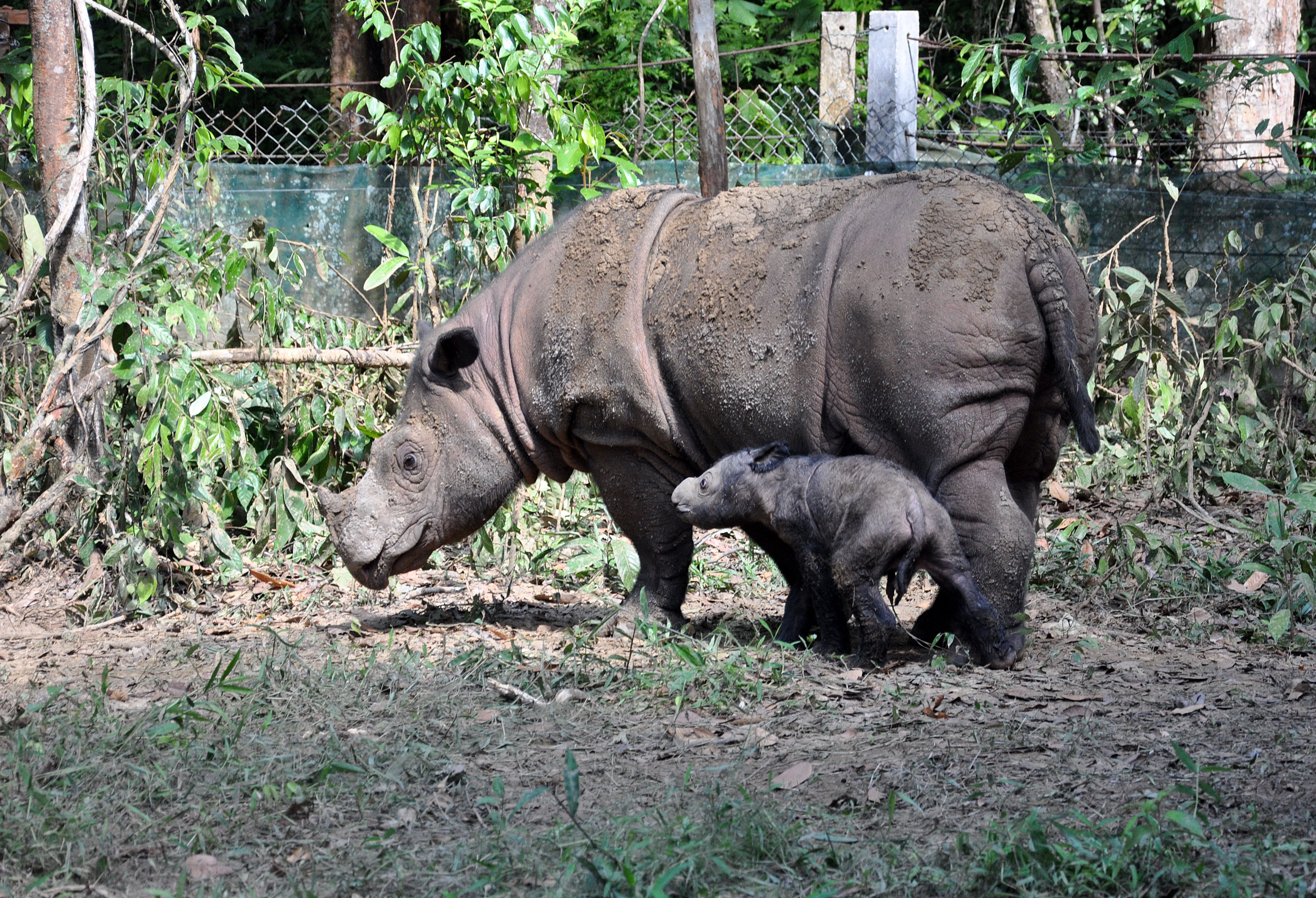 “This is a historic birth because Sumatran rhinos are on the brink of extinction,” said Novianto Bambang, director of biodiversity conservation at Indonesia’s Ministry of Forestry. Biologists estimate that only 150 to 200 individuals survive in Indonesia and Sabah, Malaysia.